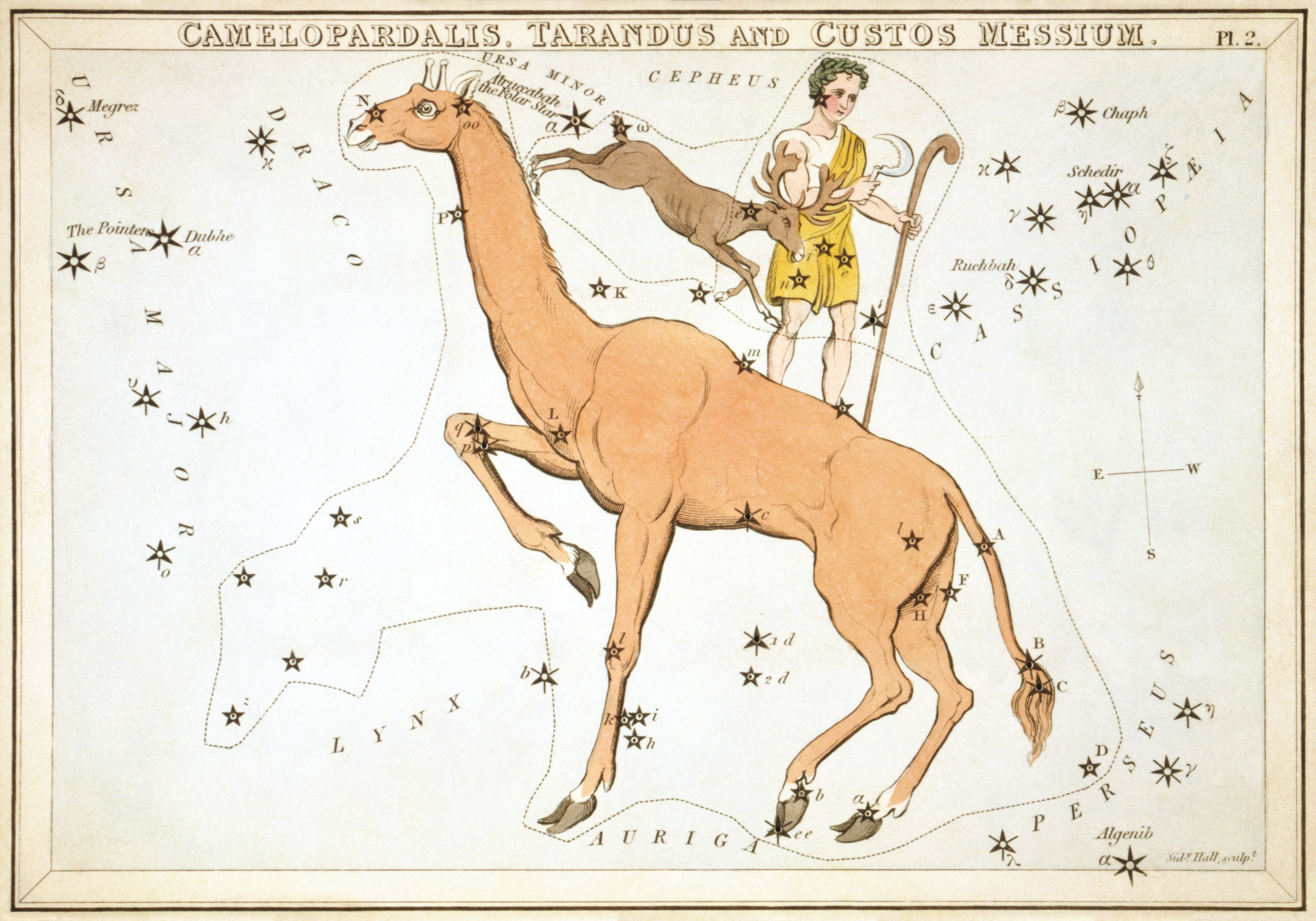 "Camelopardalis, Tarandus and Custos Messium", plate 2 in Urania's Mirror, a set of celestial cards accompanied by A familiar treatise on astronomy ... by Jehoshaphat Aspin. London. Astronomical chart, 1 print on layered paper board : etching, hand-colored.